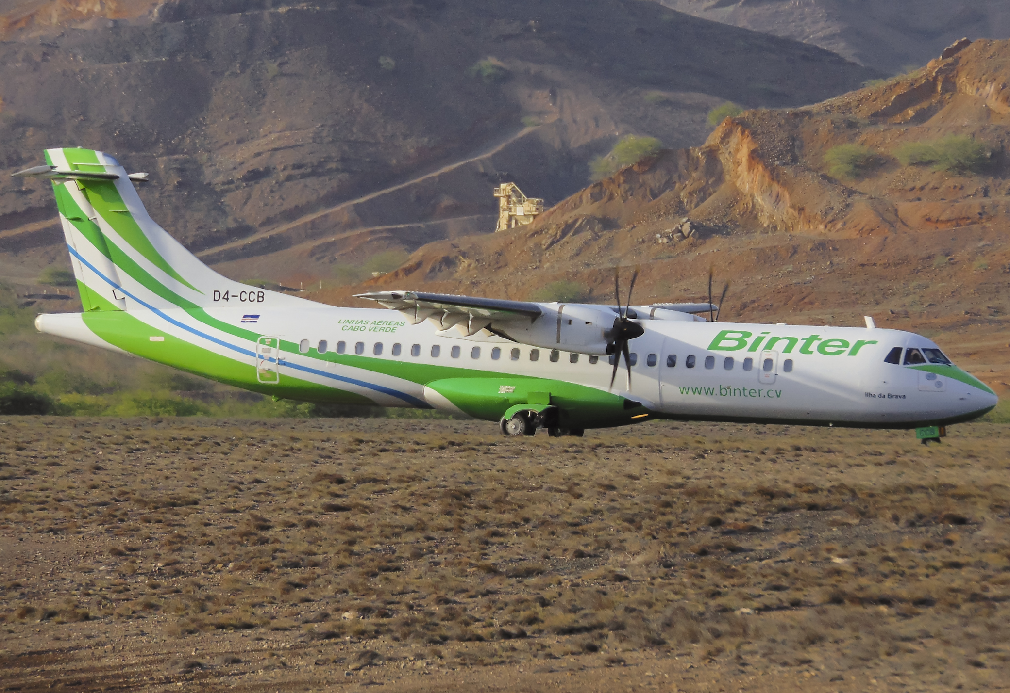 An ATR 72-500 vacating to the runway at VXE.